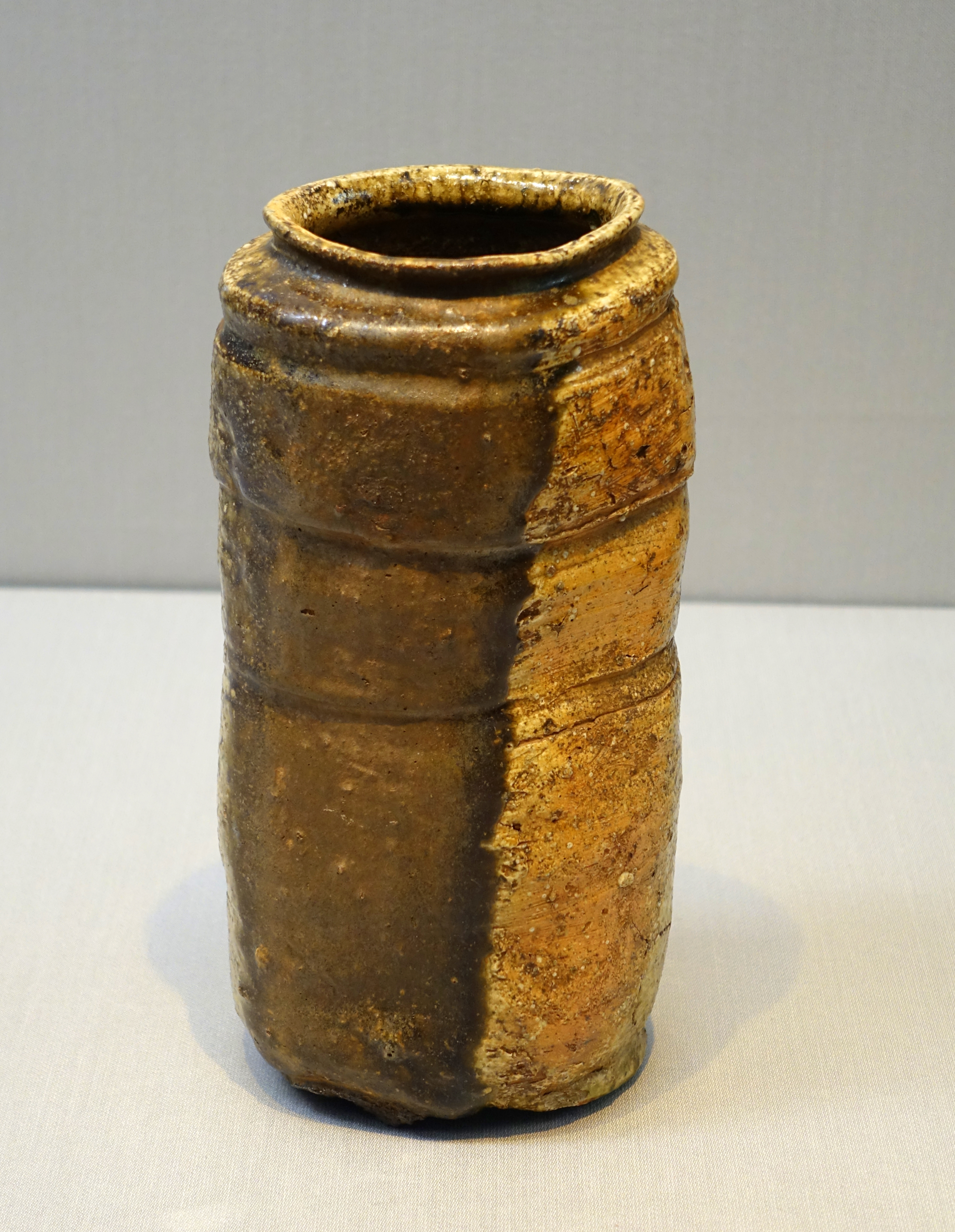 Exhibit in the Tokyo National Museum, Tokyo, Japan. This work is old enough so that it is in the public domain.